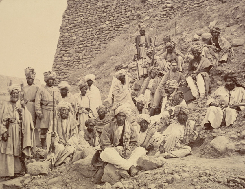 Photograph of Afghan chiefs and a British Political Officer posed at Jamrud fort at the mouth of the Khyber Pass, taken by John Burke in 1878. Burke, the most intrepid of the photographers active in Victorian India, accompanied nearly all of the British military campaigns of this period, but is best known for his photography during the Second Anglo-Afghan War (1878-80). He accompanied the Peshawar Valley Field Force during the two-year campaign and worked steadily in the hostile environment of Afghanistan and the North West Frontier Province (Pakistan), the scene of the military operations.